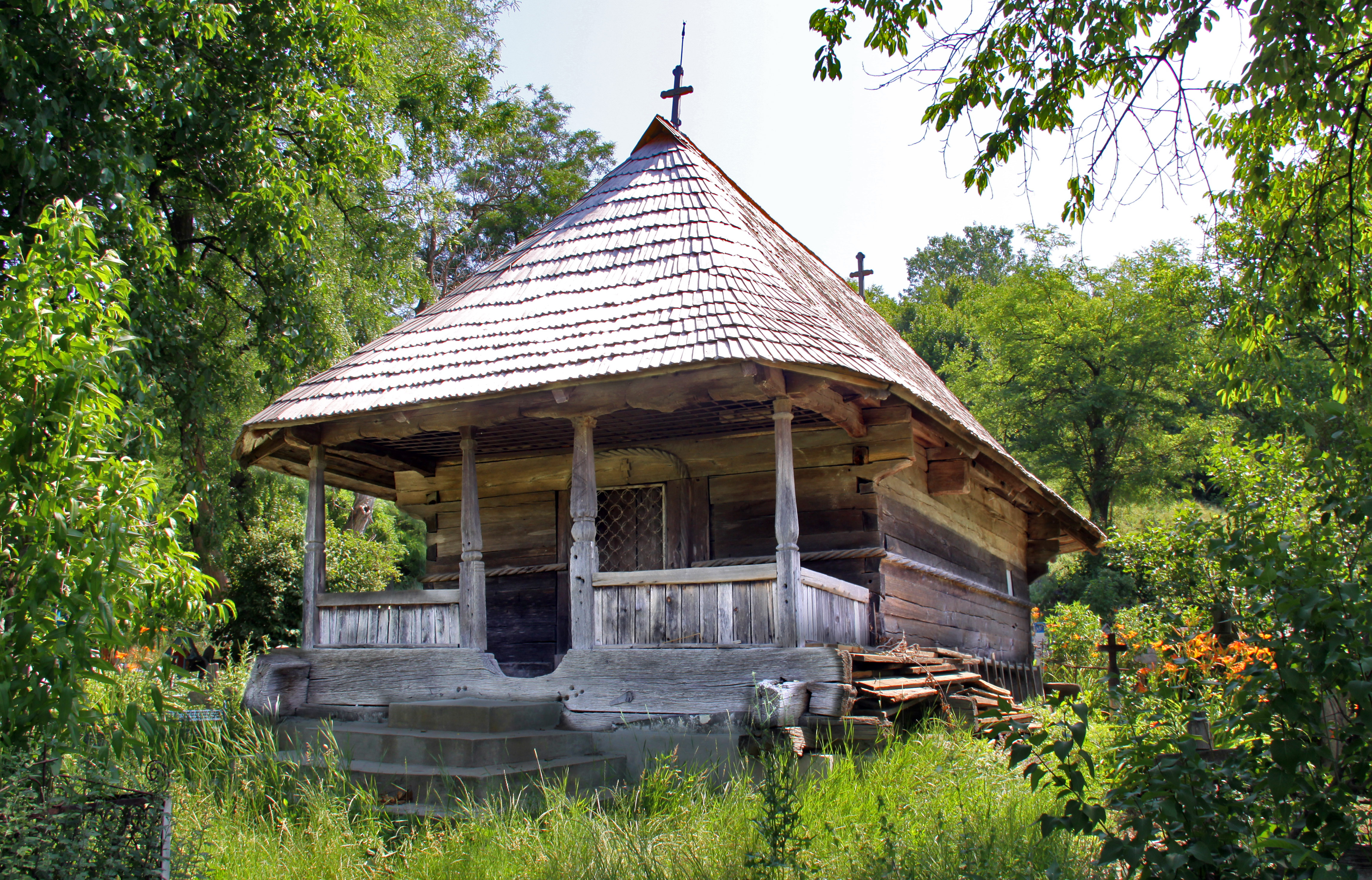 Mitrofani, Vâlcea County, Romania: the wooden church, South-West.